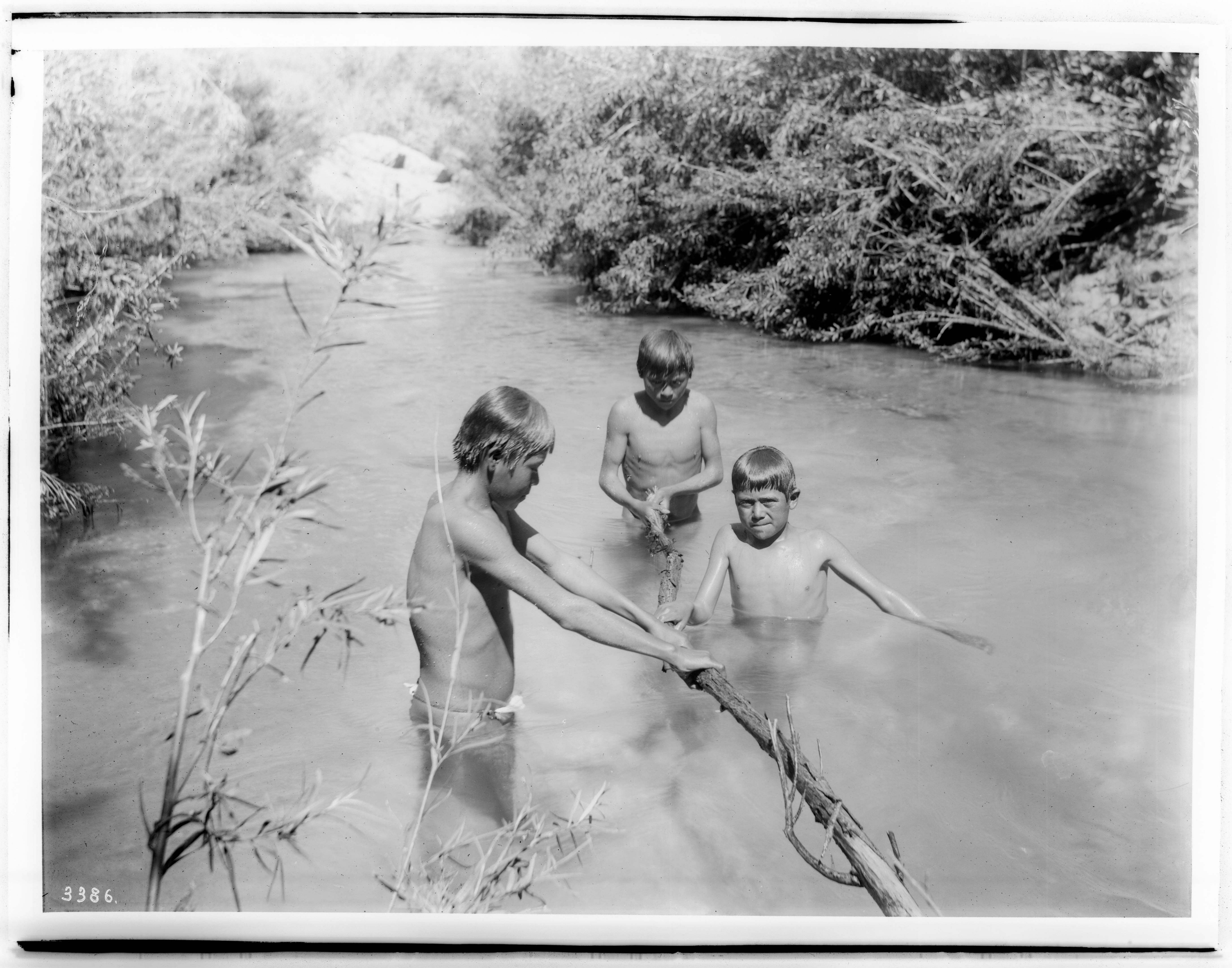 Three Havasupai Indian boys bathing in the Havasu River, ca.1900 Photograph of three Havasupai Indian boys bathing in the Havasu River (Blue Water River), ca.1900. They stand in waist high water. One boy grasps a branch sticking out over the placid water. Thick growth including trees is visible on the both banks in the background. Call number: CHS-3386 Photographer: Pierce, C.C. (Charles C.), 1861-1946 Filename: CHS-3386 Coverage date: circa 1900 Part of collection: California Historical Society Collection, 1860-1960 Type: images Part of subcollection: Title Insurance and Trust, and C.C. Pierce Photography Collection, 1860-1960 Repository name: USC Libraries Special Collections Format: glass plate negatives Microfiche number: 1-167- Archival file: chs_Volume95/CHS-3386.tiff Repository address: Doheny Memorial Library, Los Angeles, CA 90089-0189 Geographic subject (country): USA Format (aacr2): 2 photographs : glass photonegative, photoprint, b&w ; 17 x 22 cm. Rights: Digitally reproduced by the USC Digital Library; From the California Historical Society Collection at the University of Southern California Subject (adlf): rivers Project: USC Accession number: 3386 Repository Contributing entity: California Historical Society Date created: circa 1900 Publisher (of the digital version): University of Southern California. Libraries Format (aat): photographic prints; photographs Legacy record ID: chs-m16020; USC-1-1-1-13517 Access conditions: Send requests to address or e-mail given. Phone (213) 821-2366; fax (213) 740-2343. Subject (file heading): Indians -- Havasupai Subject (lcsh): Indians of North America; Havasupai Indians; Children; Swimming Subject: Havasupai Indians